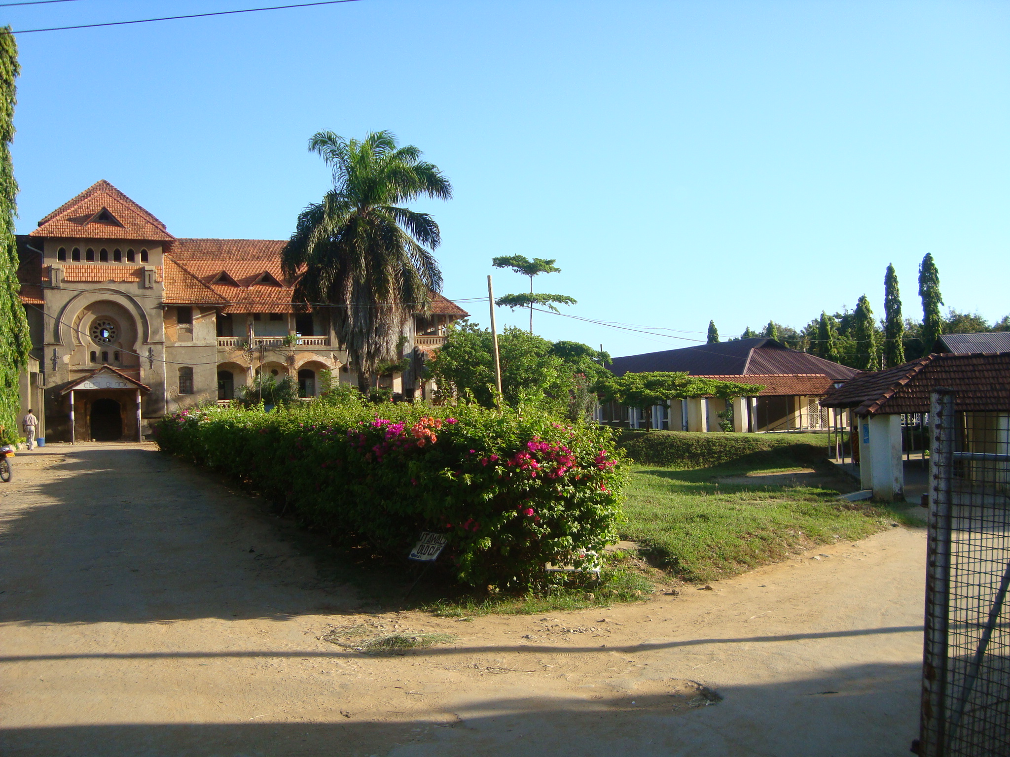 Bombo Regional Hospital,Tanga, has a around 350 beds, Medical WARD (B3,B4)WARD 8 for diarrhoea and TB Surgical WARD (A1,A2, and WARD7) Paediatrics WARD(13,14,Sokeini) OB/GYN WARD (C5,C6) GRADE, Private WARD